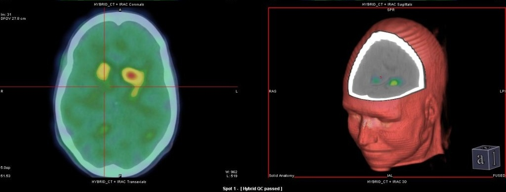 SPECT/CT with trodat-1